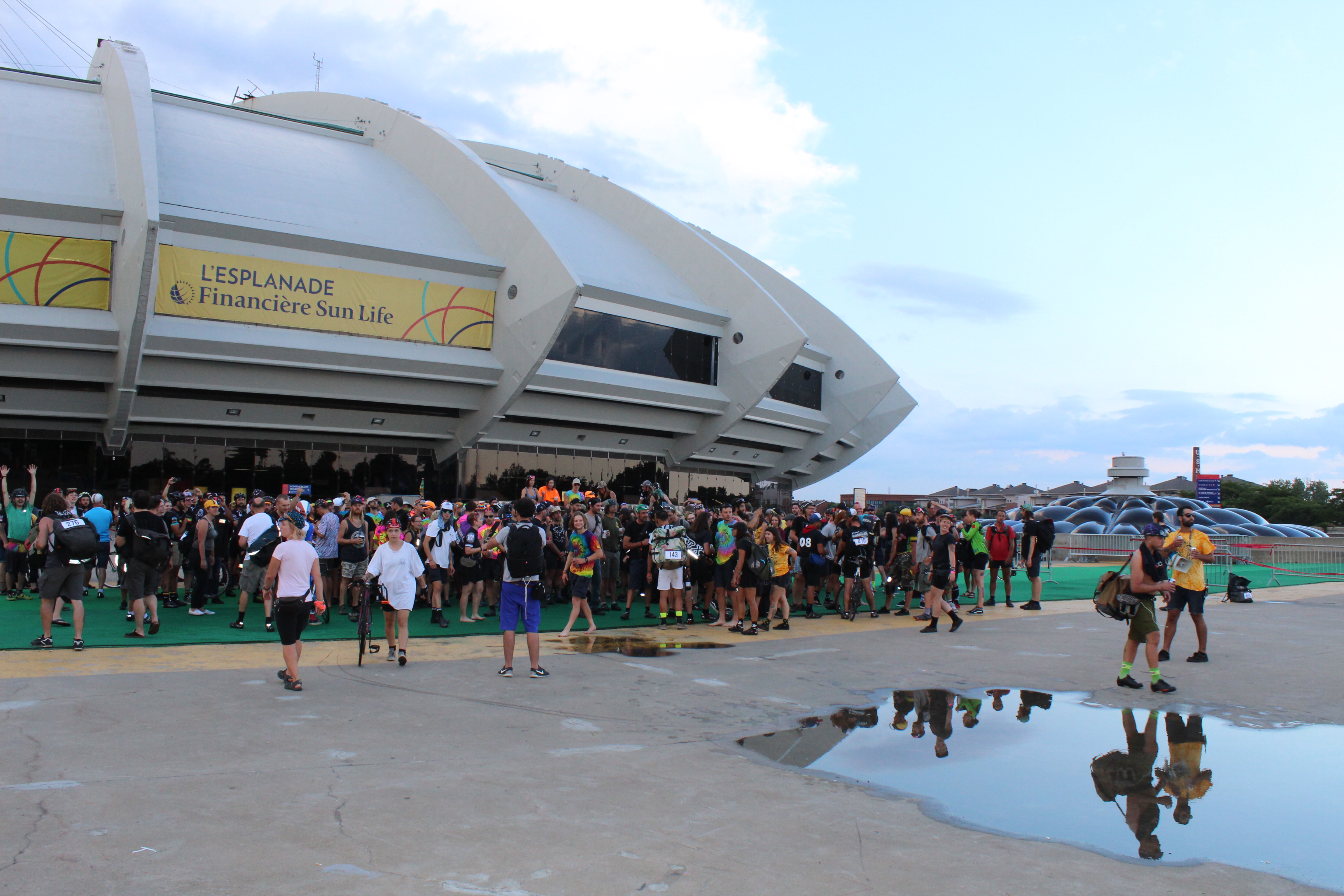 Bicycle Messengers from around the world gather at 2017 Montreal Cycle Messenger World Championship